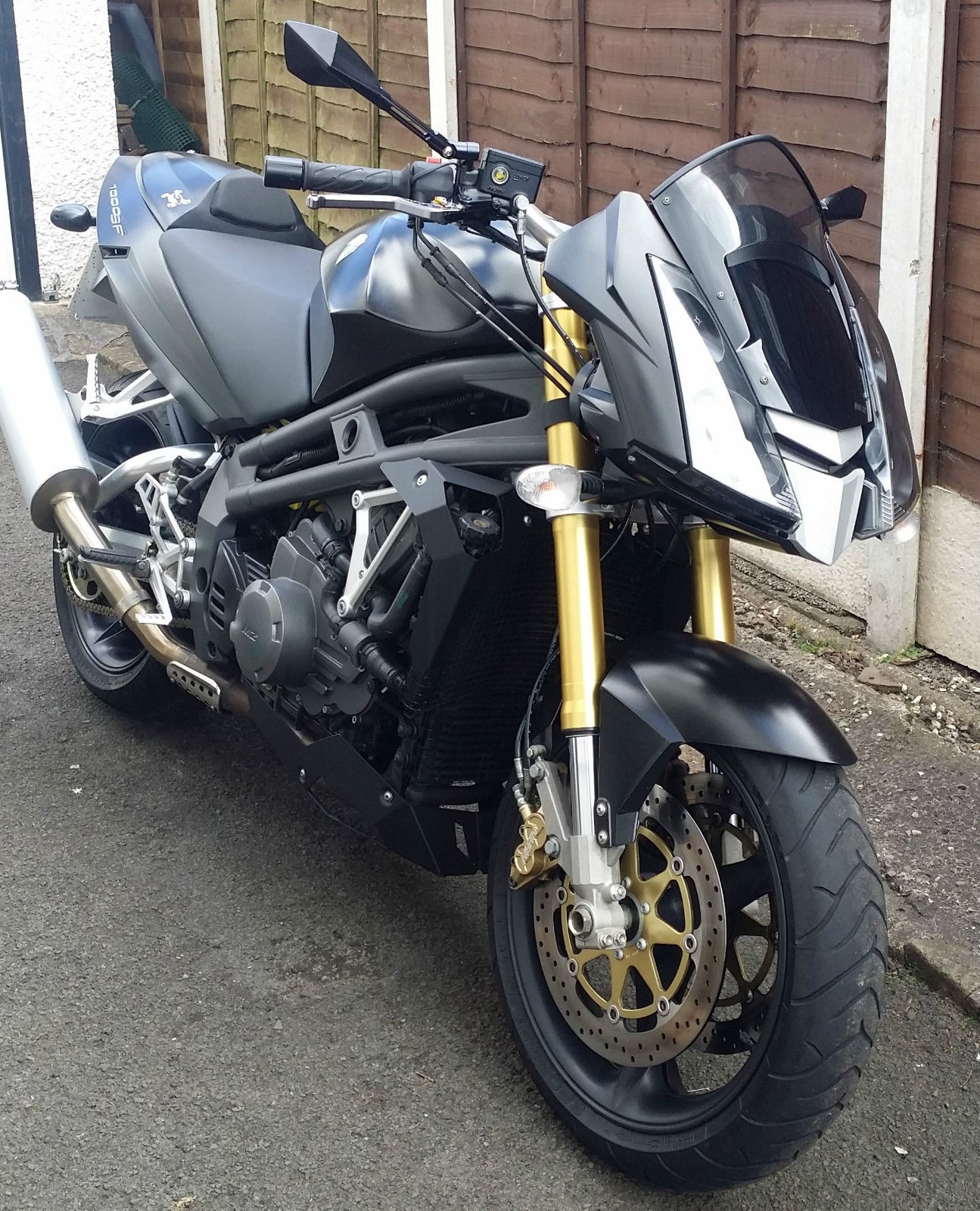 MZ 1000SF "Street Fighter"